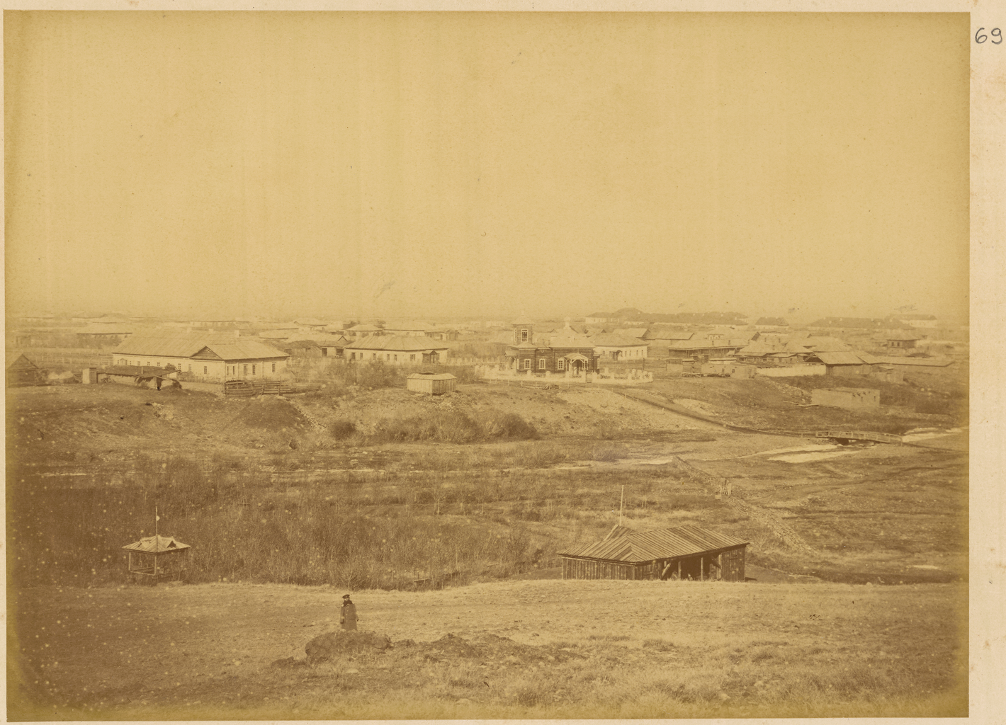 In 1874-75, the Russian government sent a research and trading mission to China to seek out new overland routes to the Chinese market, report on prospects for increased commerce and locations for consulates and factories, and gather information about the Dungan Revolt then raging in parts of western China. Led by Lieutenant Colonel Iulian A. Sosnovskii of the army General Staff, the nine-man mission included a topographer, Captain Matusovskii; a scientific officer, Dr. Pavel Iakovlevich Piasetskii; Chinese and Russian interpreters; three non-commissioned Cossack soldiers; and the mission photographer, Adolf Erazmovich Boiarskii. The mission proceeded from Saint Petersburg to Shanghai via Ulan Bator (Mongolia), Beijing, and Tianjin, and then followed a route along the Yangtze River, along the Great Silk Road through the Hami oasis, to Lake Zaysan, back to Russia. Boiarskii took some 200 photographs, which constitute a unique resource for the study of China in this period. Most of the photographs are included in this album, which later became part of the Thereza Christina Maria Collection assembled by Emperor Pedro II of Brazil and given by him to the National Library of Brazil. Buildings; Cities and towns; Memory of the World